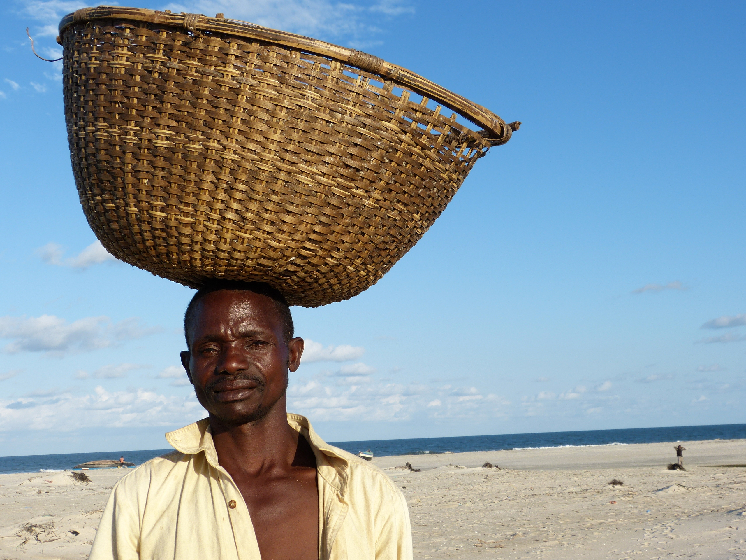 The fishermen from this area (near Angoche town, Nampula province) are considered the best in Mozambique. This is an image of "African people at work" from Mozambique